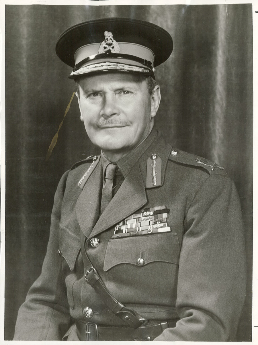 Photo of Lieutenant General Bernard Cyril Freyberg, 1st Baron Freyberg in 1952.